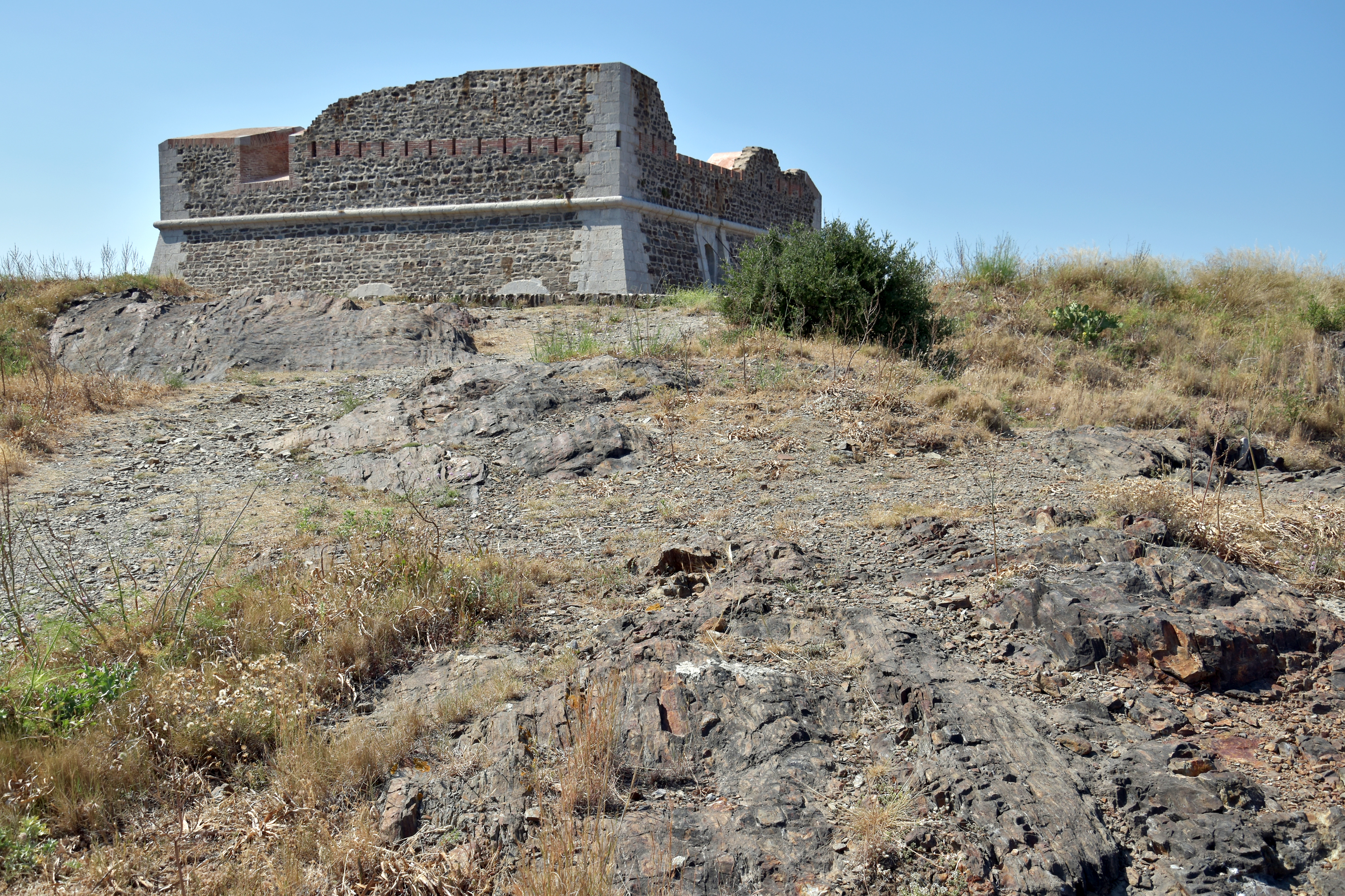 Collioure